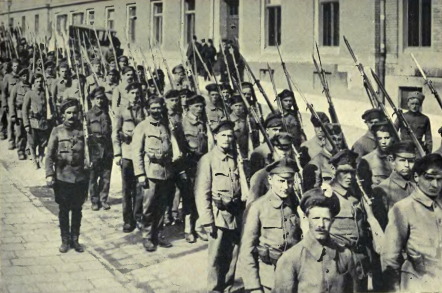 Heltai's sailors, supporters of the Hungarian revolution, 1918-1919.